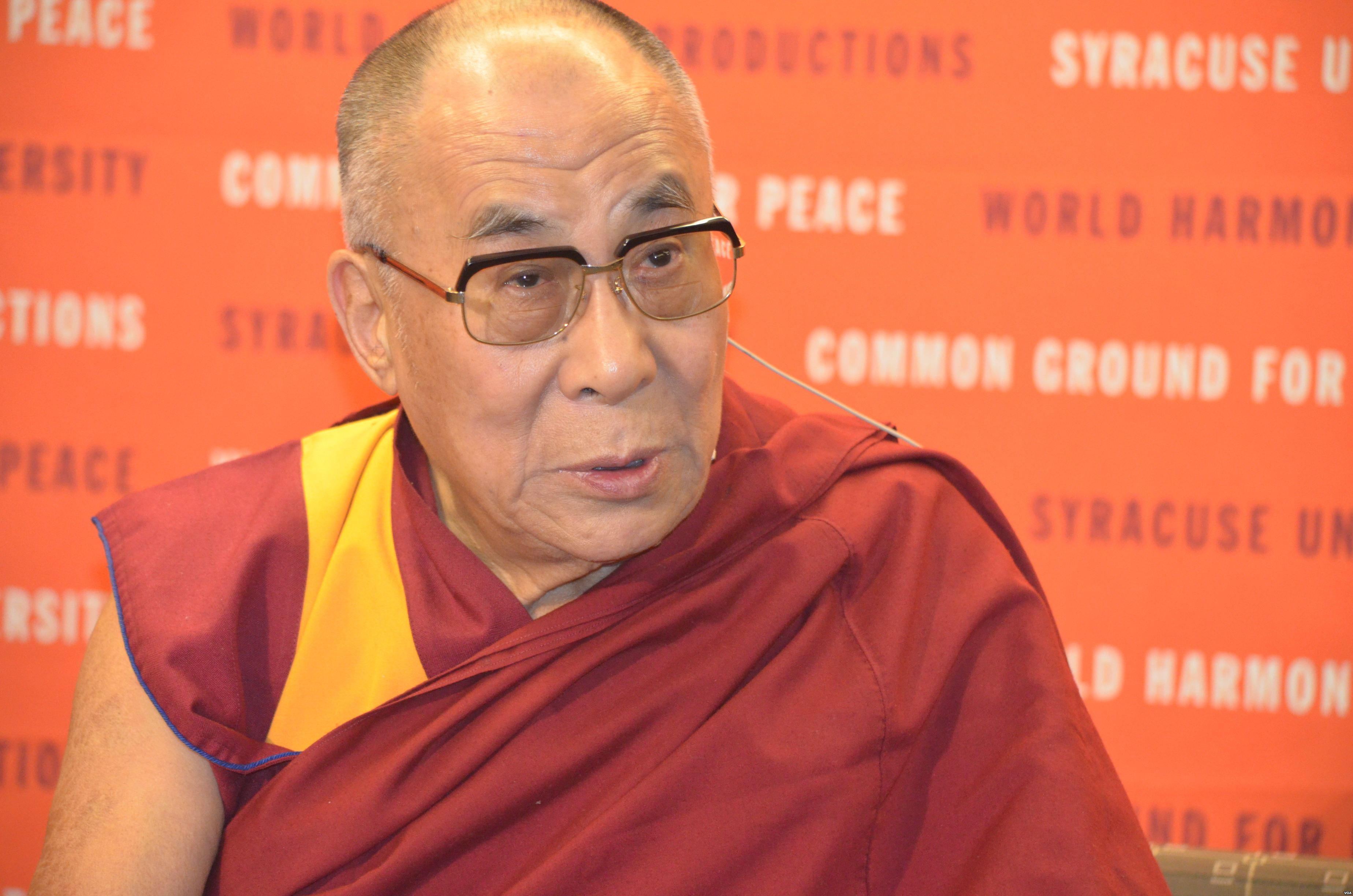 Dalai Lama at Syracuse University